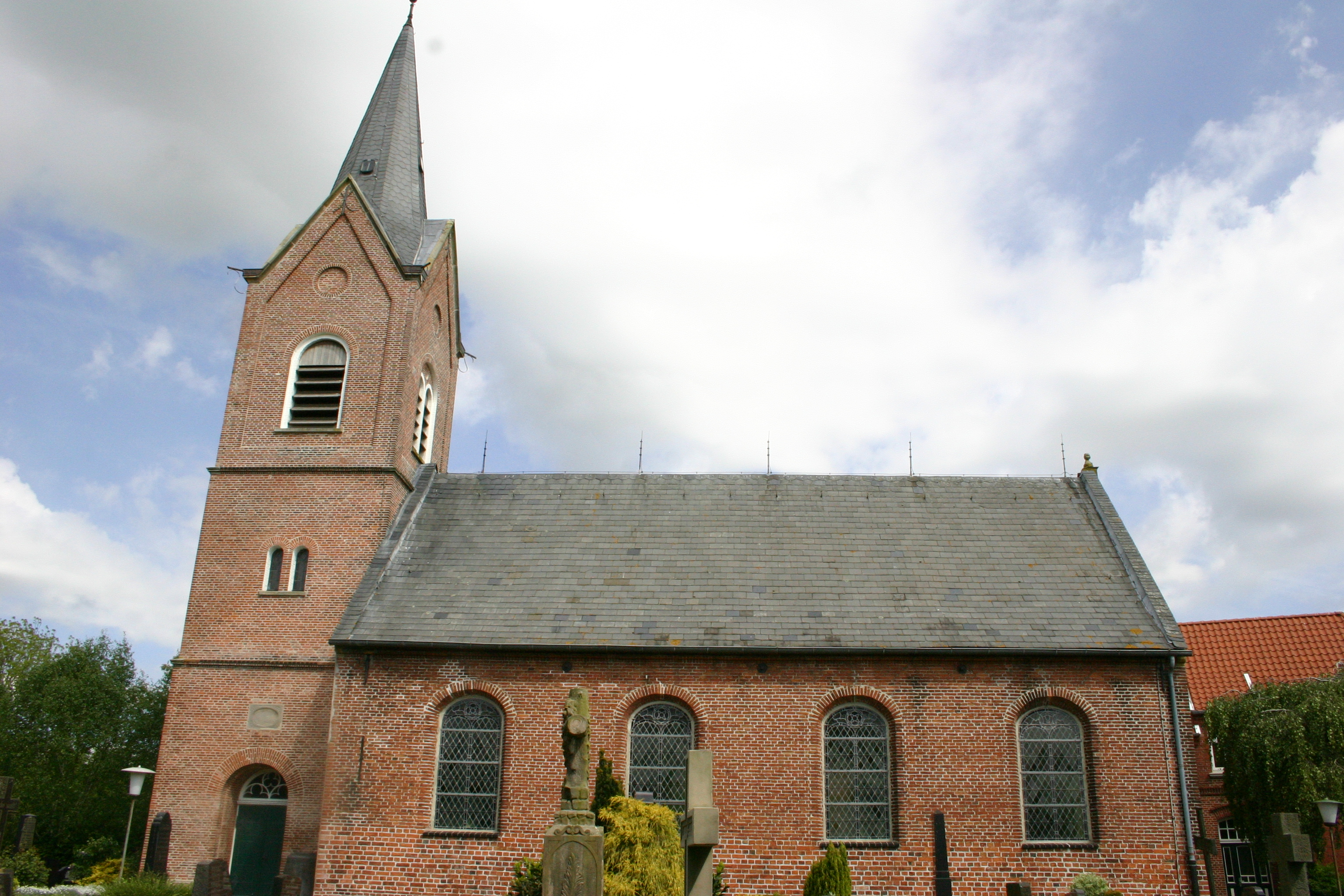 Historic church in Amdorf, district of Leer, East Frisia, Germany